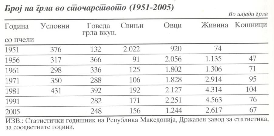 Number of herds in Macedonia in the period 1951-2005